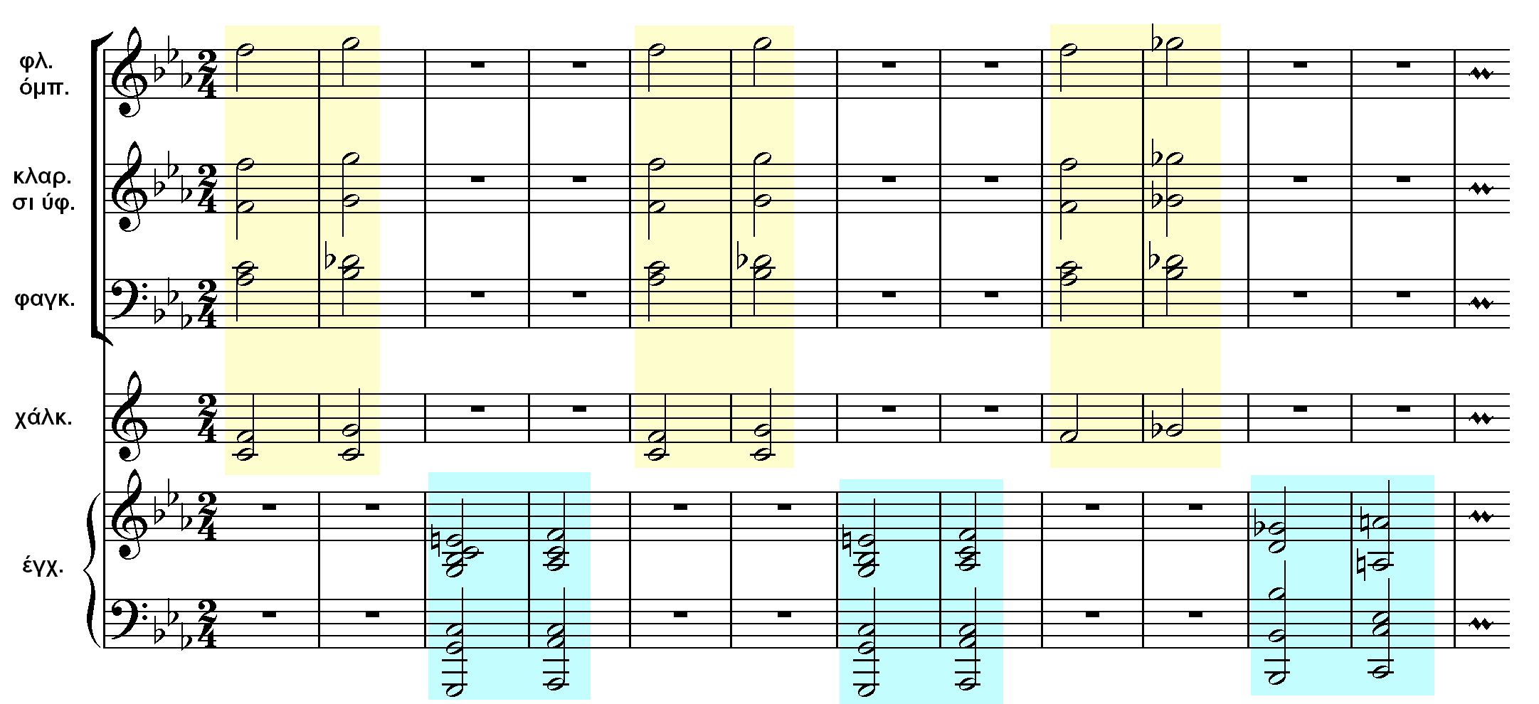 Beethoven, Symphony No. 5